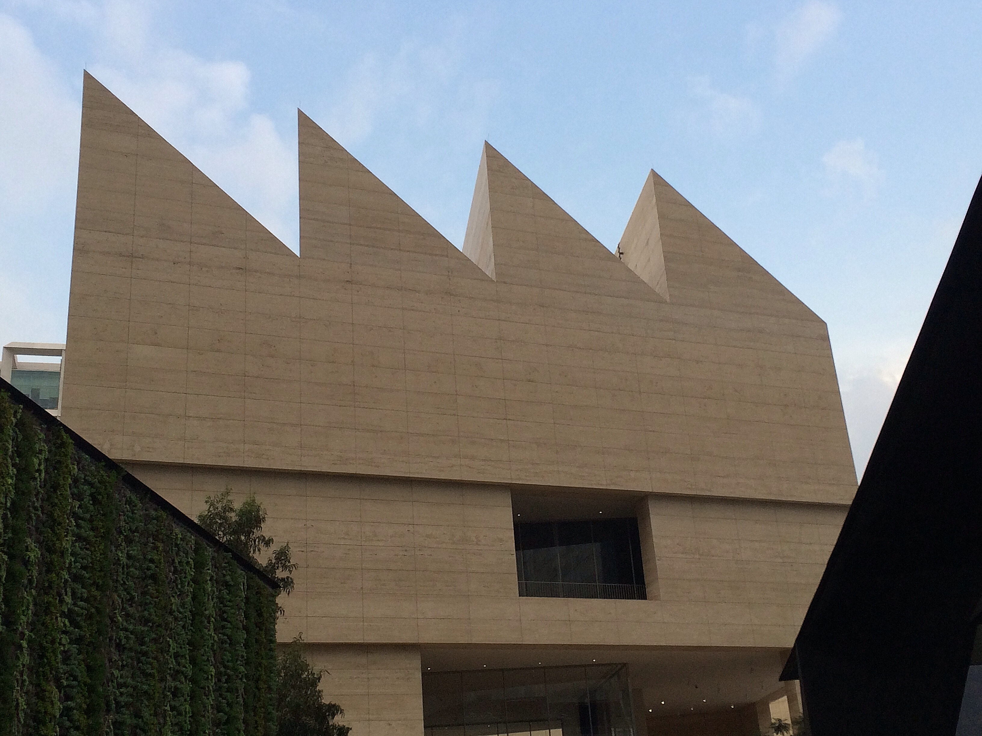 Museo Júmex side